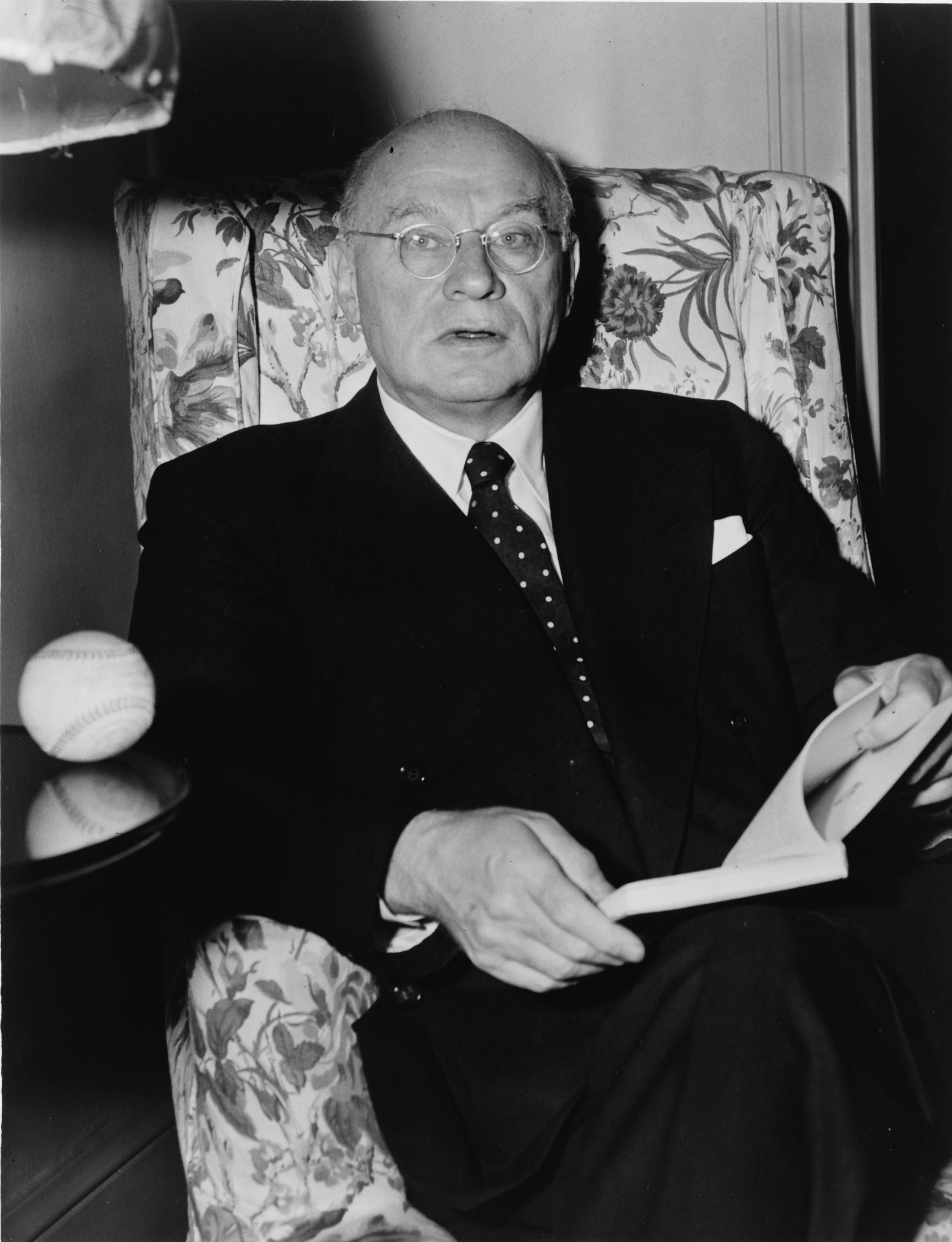 Emanuel Celler, three-quarter length portrait, seated, facing front / photo by Wm. C. Greene.